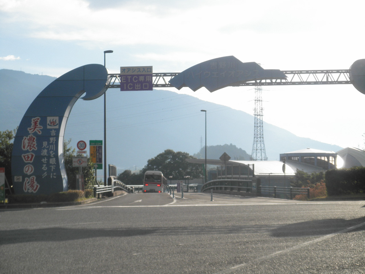 Yoshinogawa S.I.C The down line